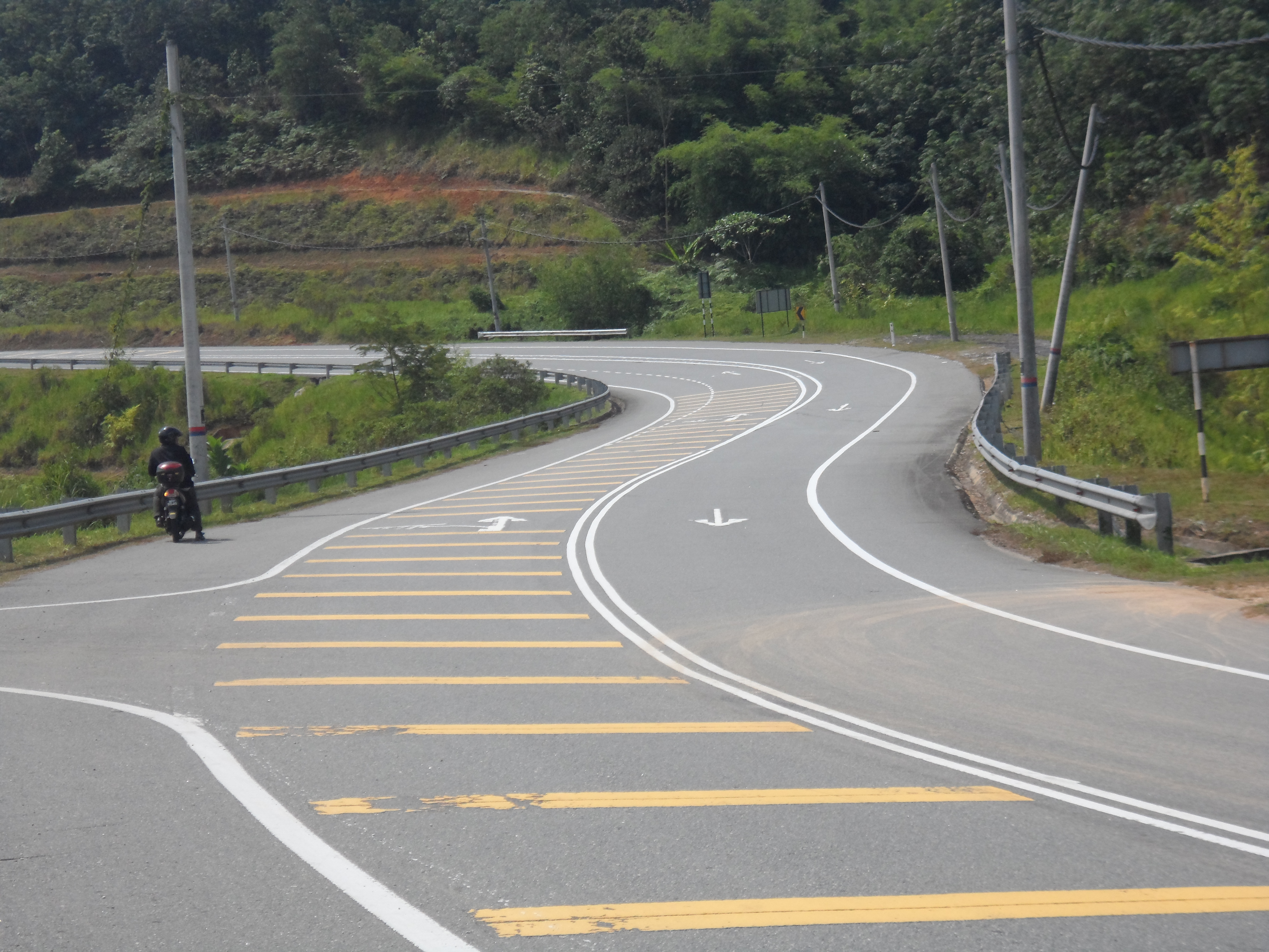 Ringlet-Sungai Koyan Highway FT102 proceeding uphill at Pos Betau.